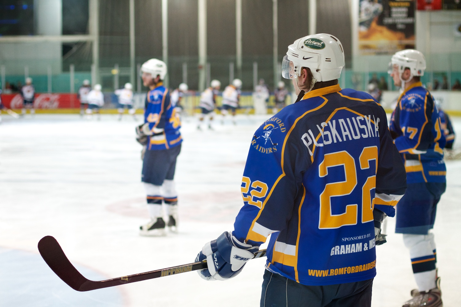 Forward Darius Pliskauskas #22 of the Romford Raiders stands during the English Premier Ice Hockey League game against Guildford Flames on February 13, 2010.